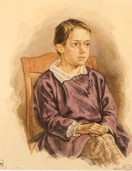 Egor Ivanowitch Makovsky (1800-1886) Portrait of the Nikolay Egorowitch Makovsky